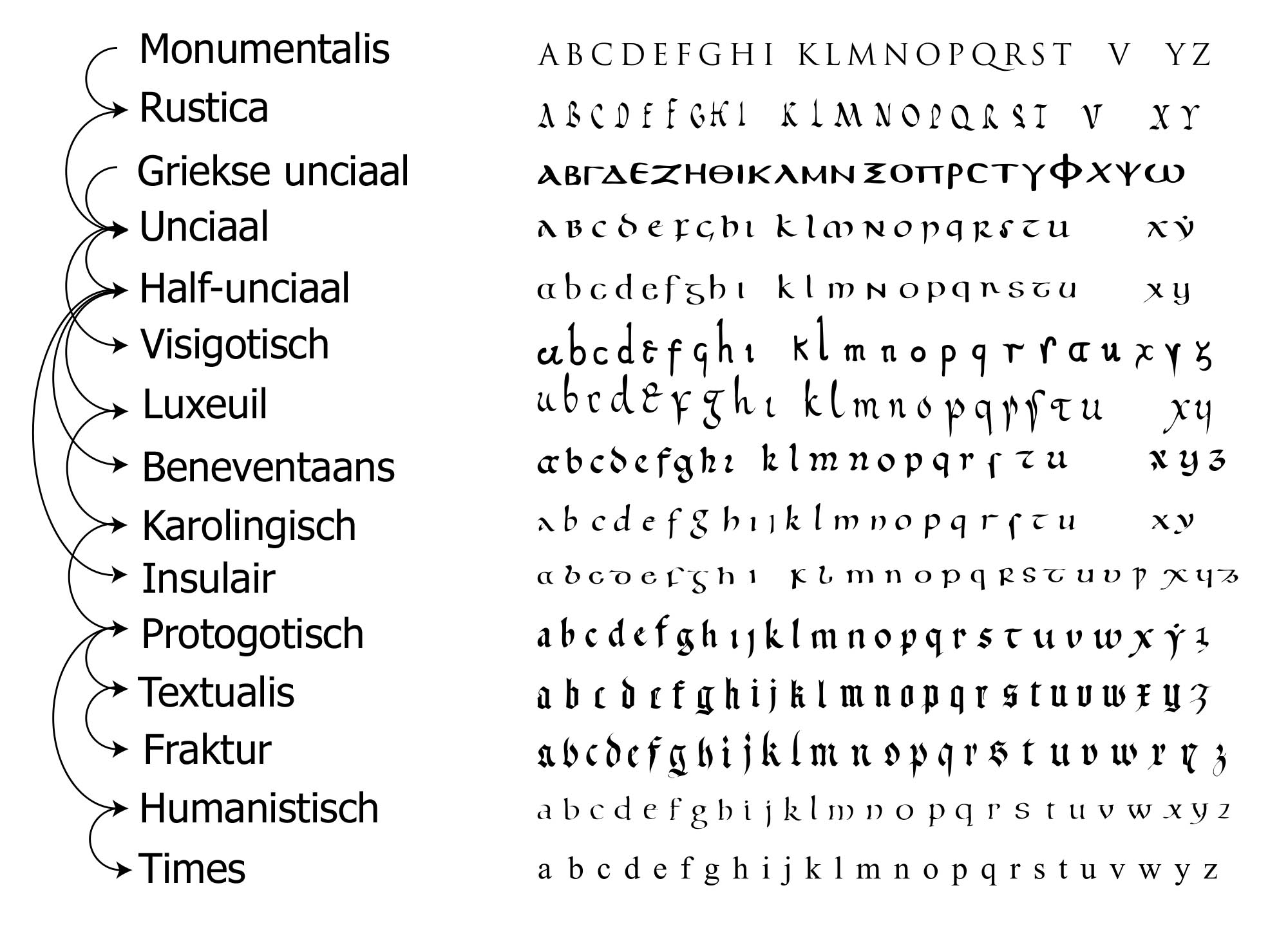 Evolution of minuscule based on several sources but mainly for convenience from a calligrapy book [1] but corrected the various incorrect forms (j v and w removed, z and s changed